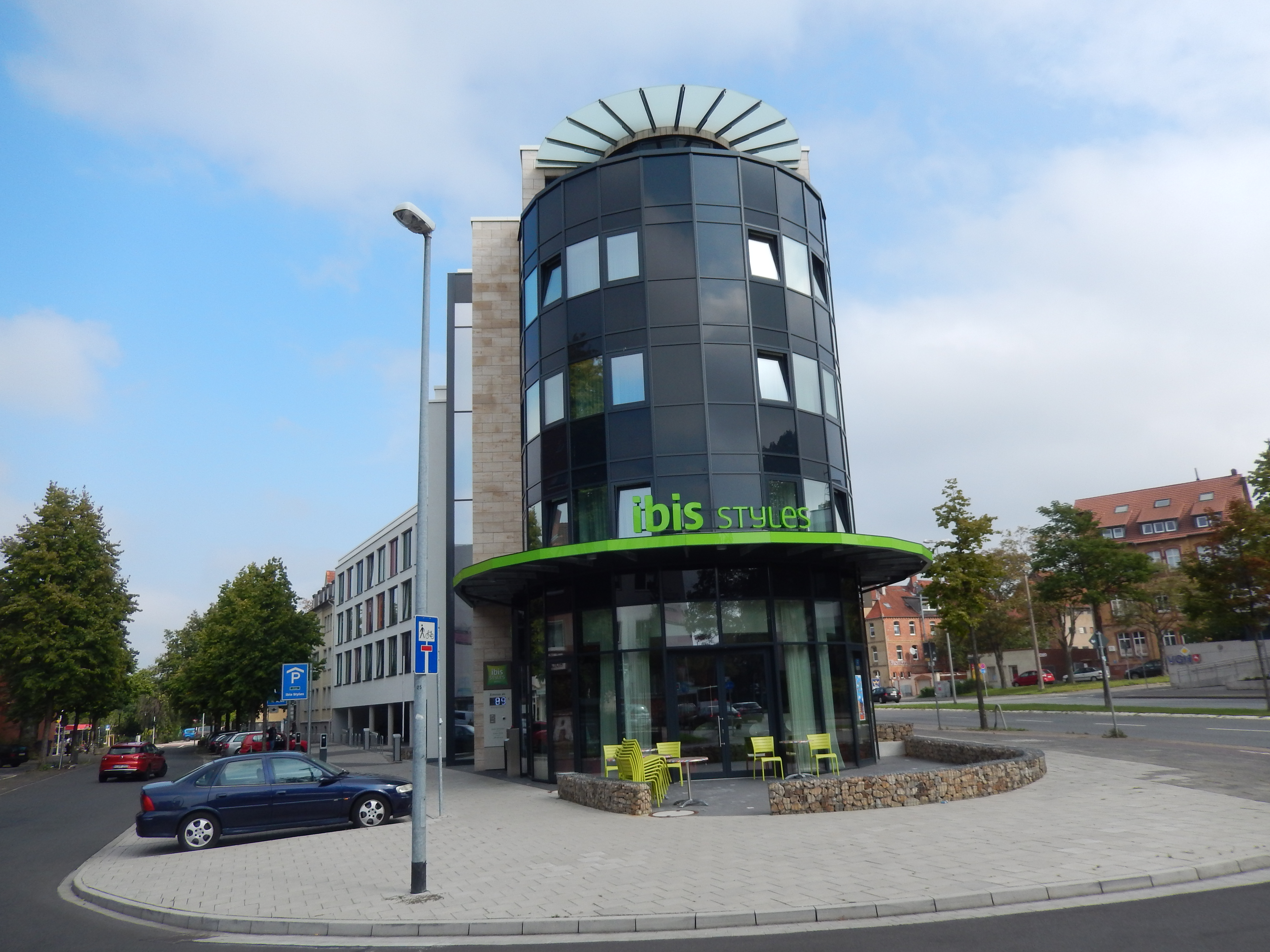 Hotel Ibis Styles in Hildesheim, Germany.